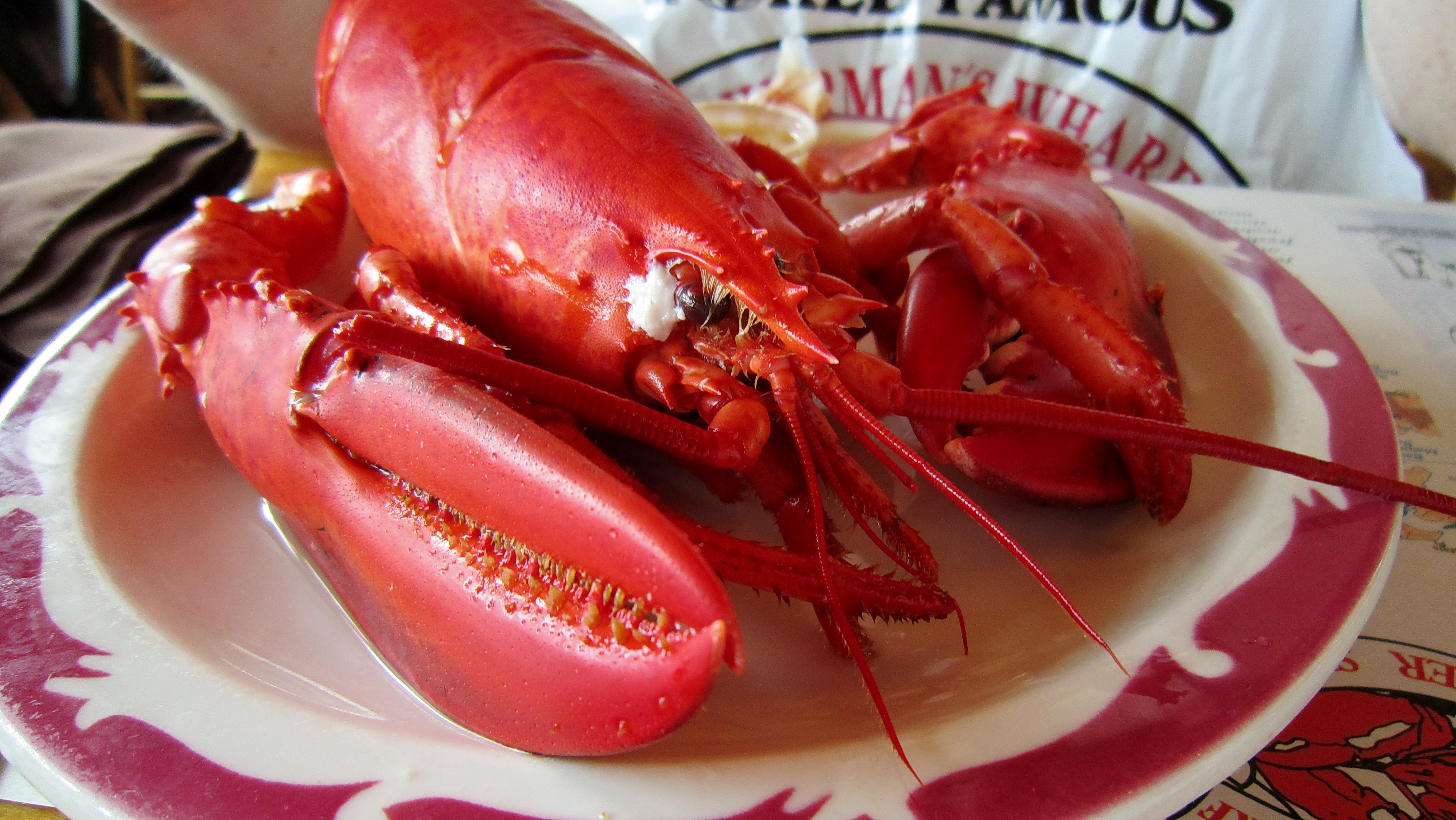 Fisherman's Wharf Lobster Supper, North Rustico, Prince Edward Island, Canada